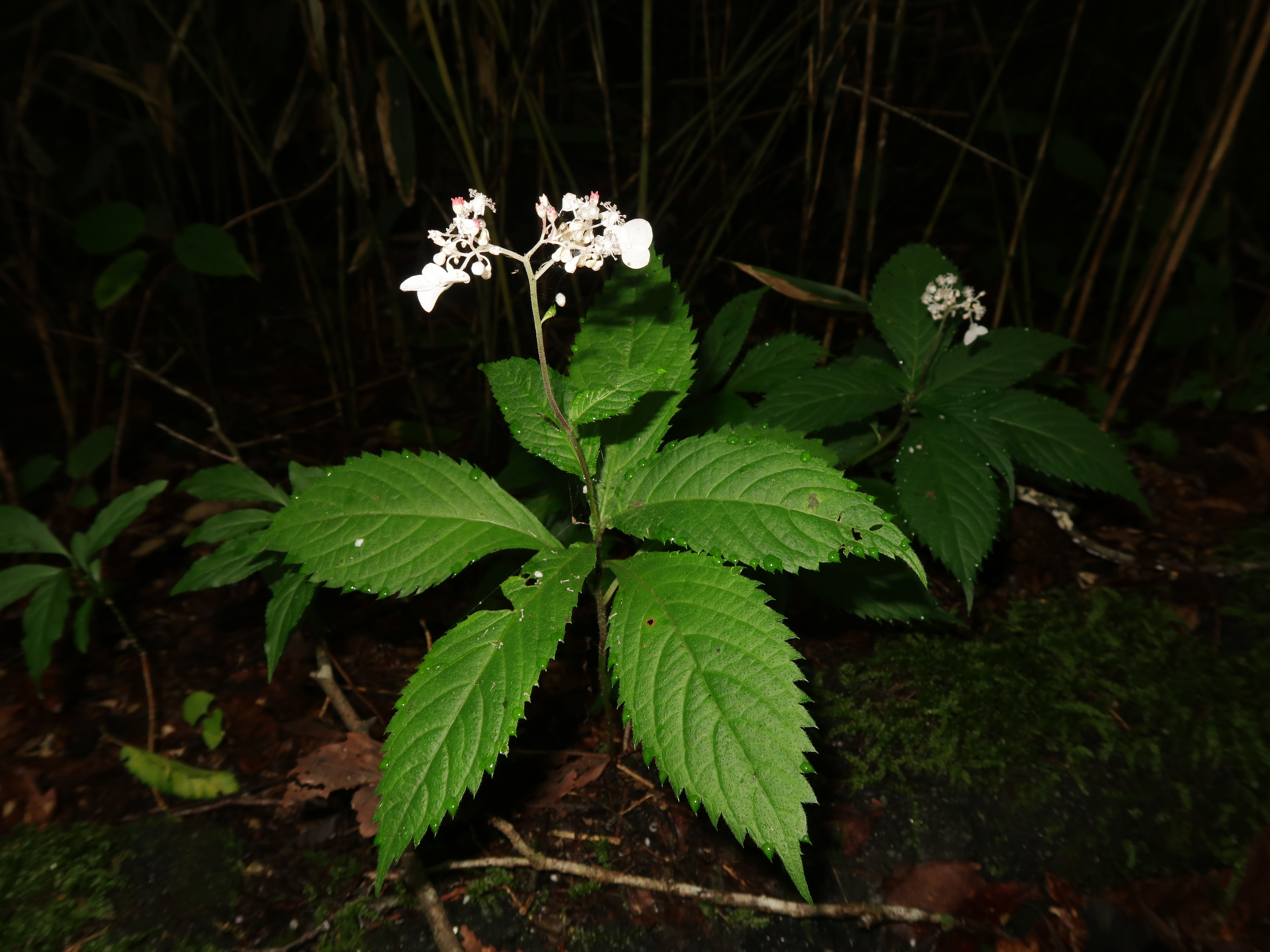 Cardiandra alternifolia, Nouth area, Ibaraki pref., Japan